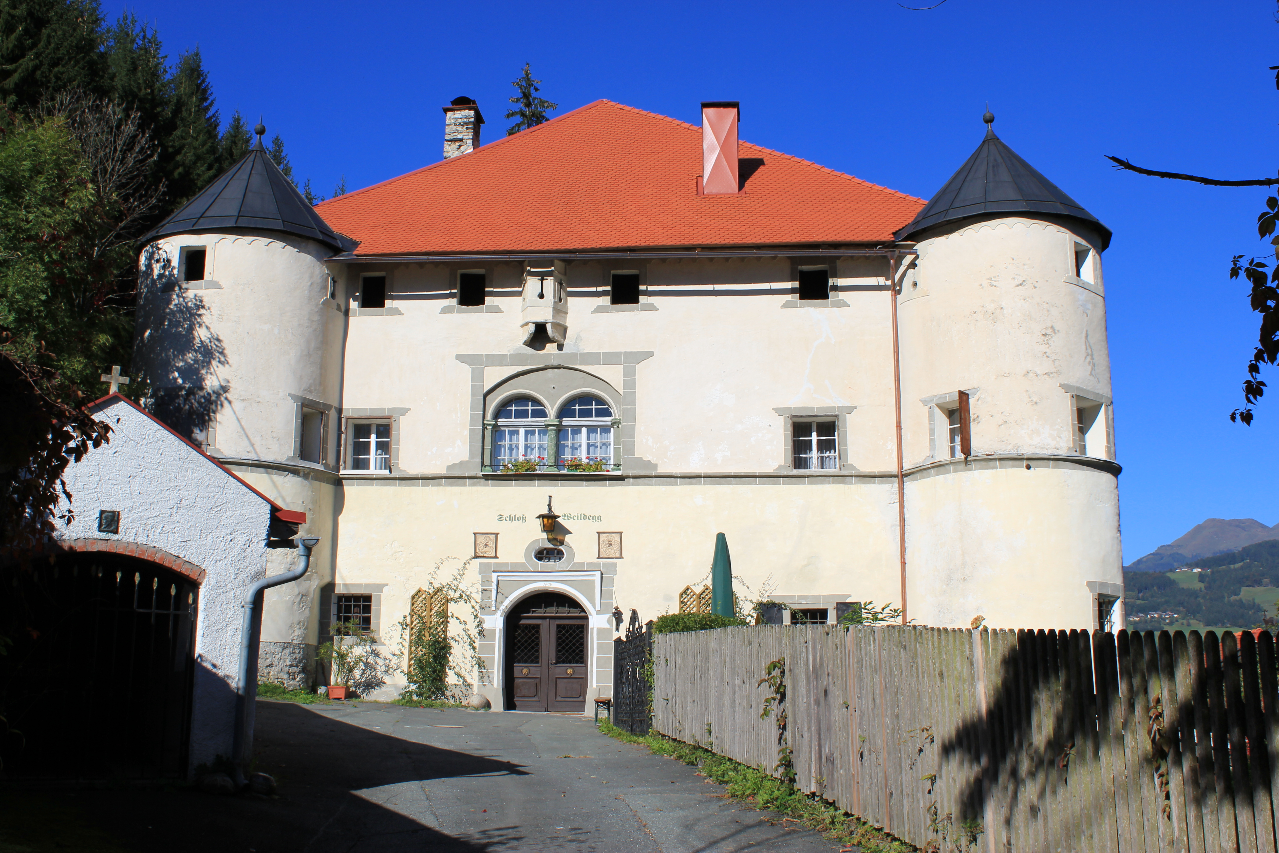 Weildegg castle in the community of Kötschach-Mauthen